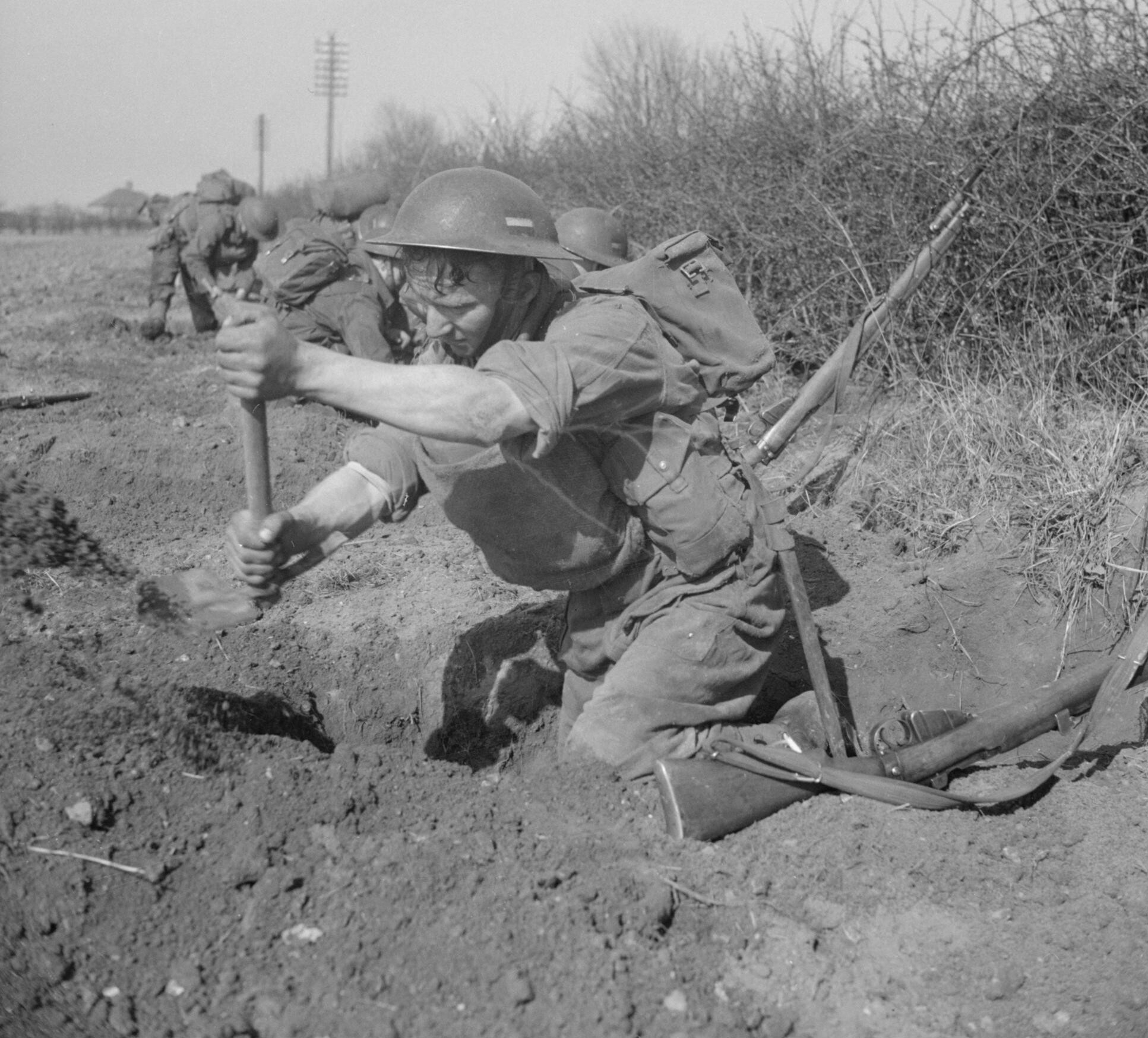 The British Army in the United Kingdom 1939-45 Men of 1st/7th Battalion, The Royal Warwickshire Regiment, digging in with entrenching tools during training at Horncastle, 15 April 1942.